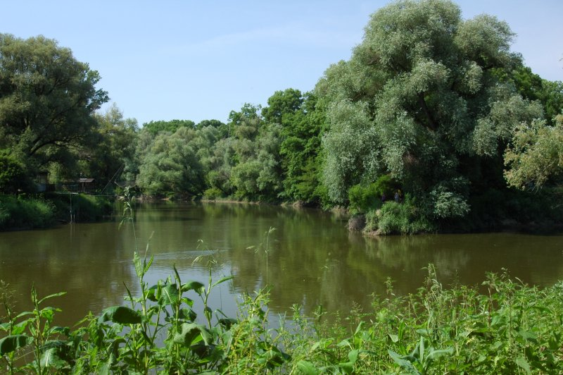 Thaya (Dyje) and Morava confluence, Austrian-Czech-Slovak borders intersection. View from Slovak side, Austria - opposite bank on the left, Czech republic - opposite bank on the right.